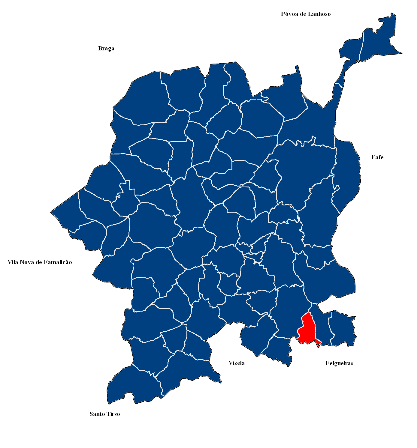 Map of Gémeos parish, Guimarães Municipality, Portugal